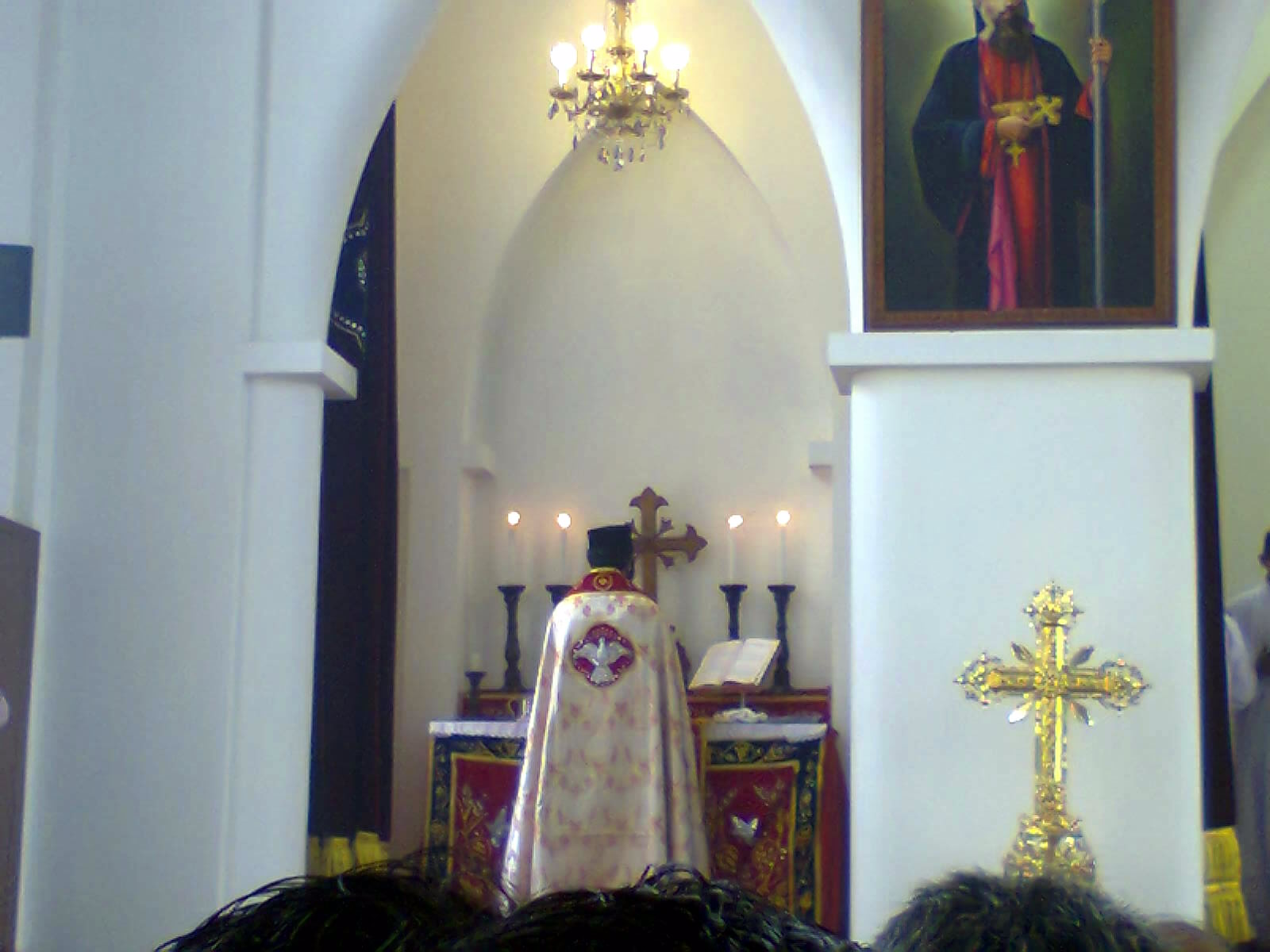 Divine Liturgy of Malankara Orthodox Church in Delhi